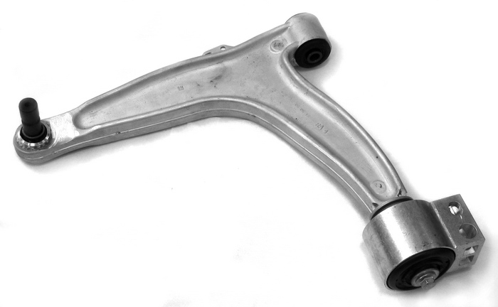 Aluminium (AA6082) front suspension arm used in General Motor's Epsilon architecture. Sigmund 09:08, 25 February 2006 (UTC)